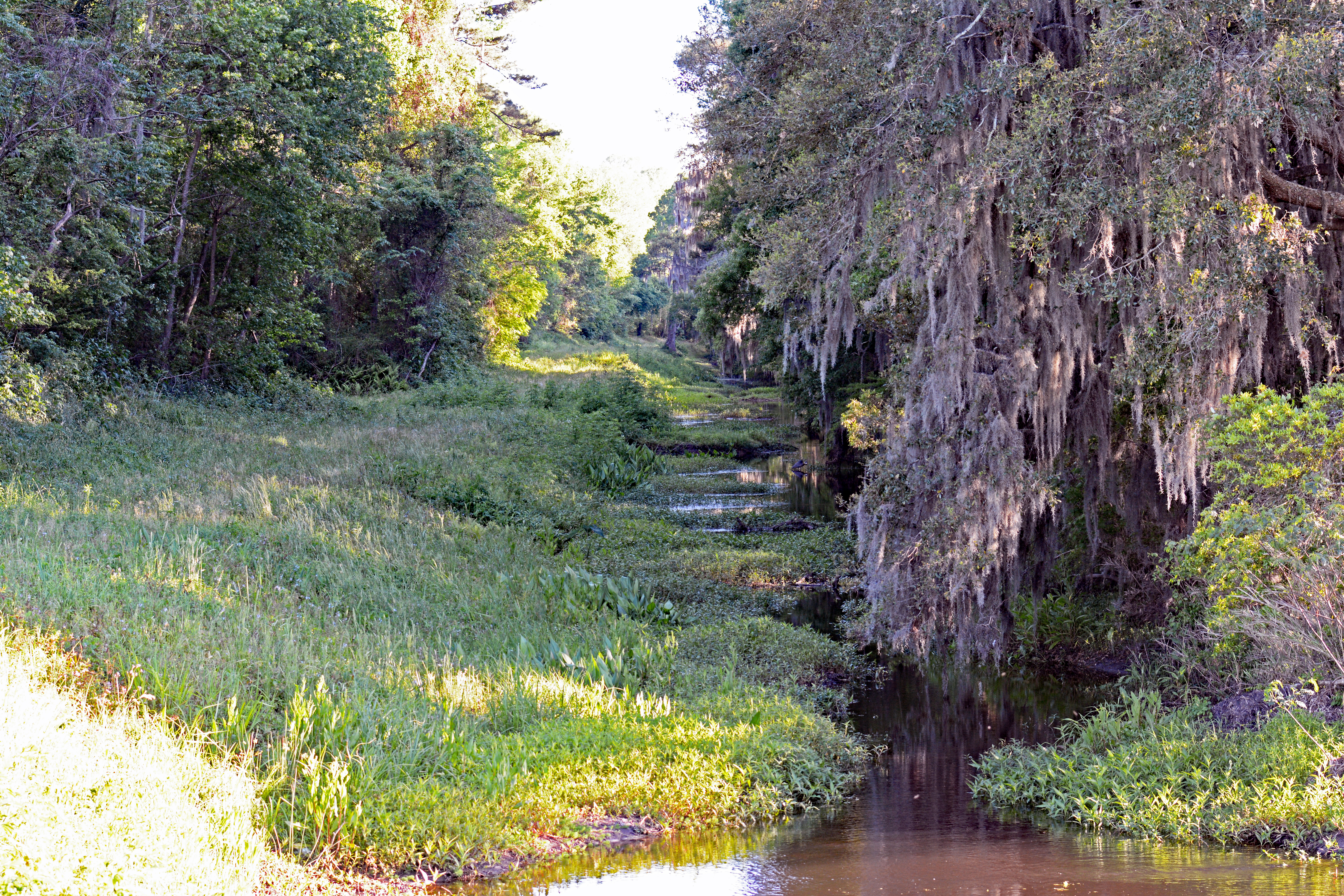 The Brunswick-Altamaha canal in Glynn County, Georgia, US